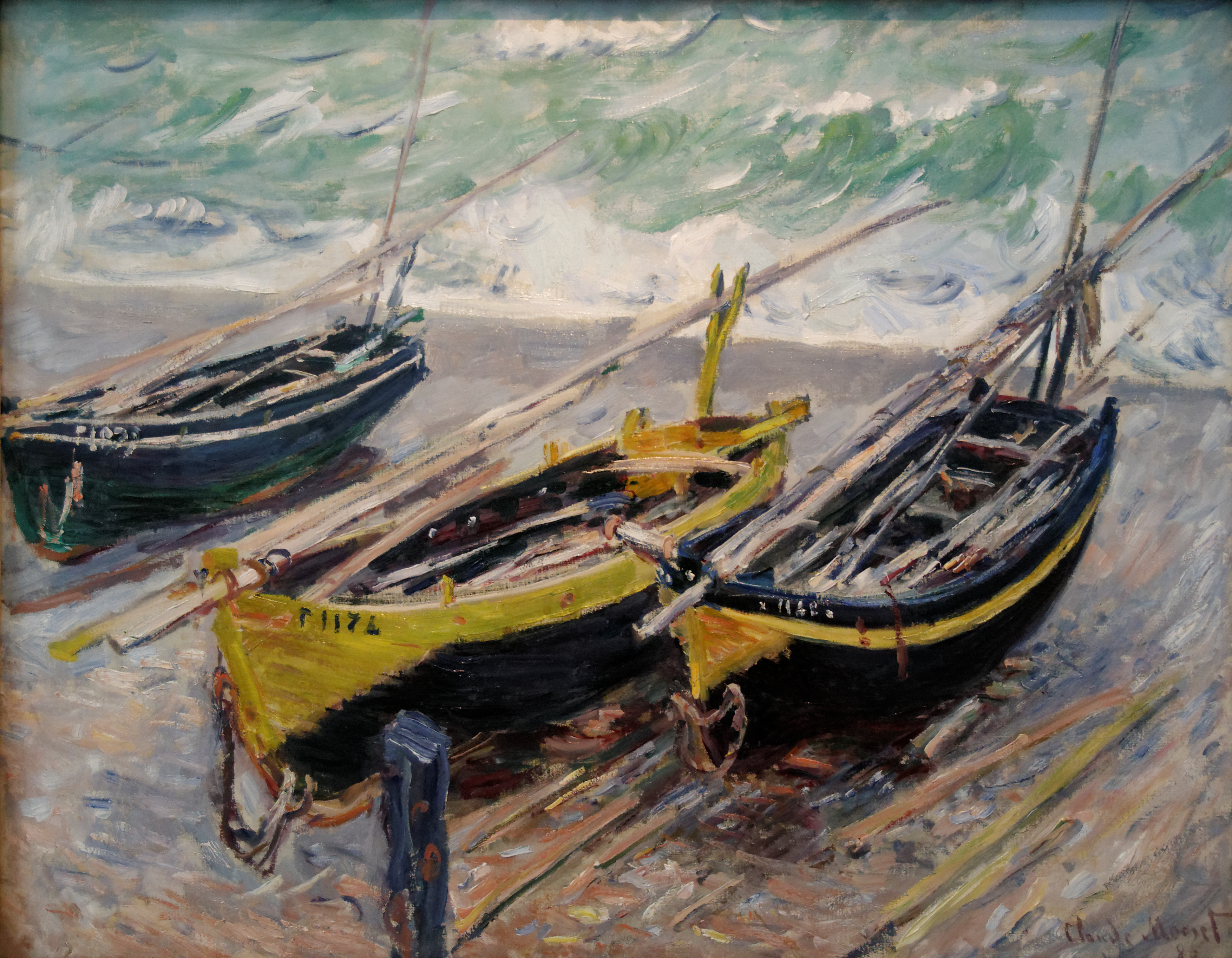 Three fishing boats, 1886. Claude Monet. Budapest museum of fine arts. Purchase from István Herzog, 1945. N° inv 436.B